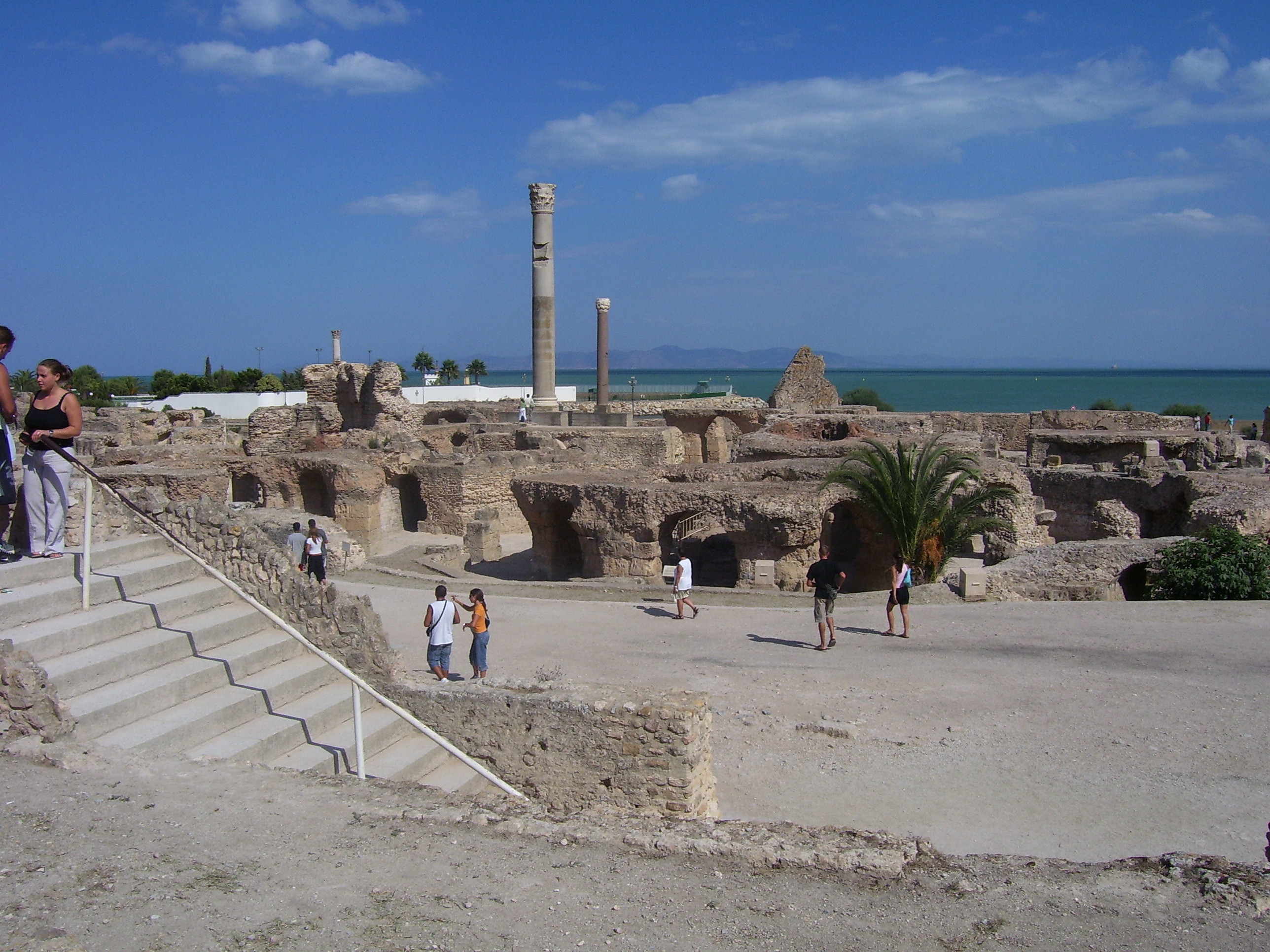 Carthage (Tunisia), 2005